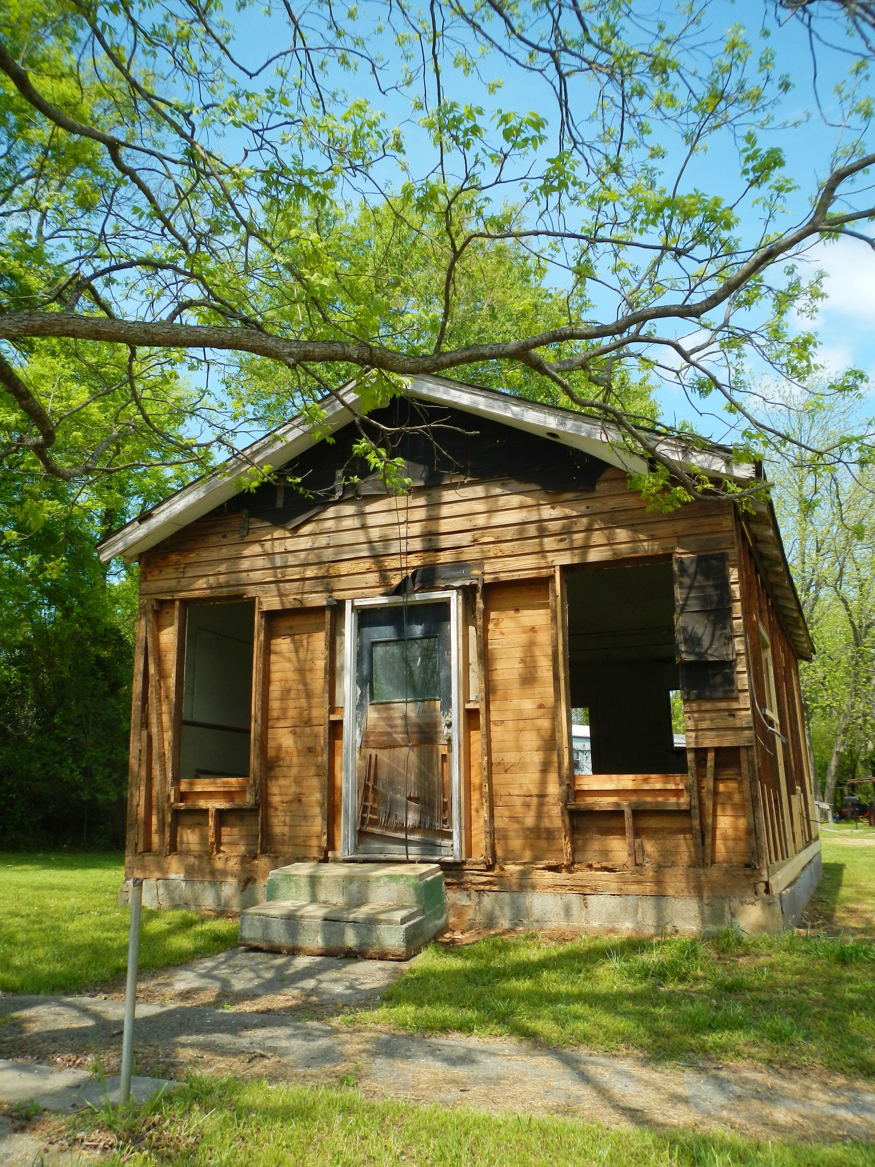 This is a photograph of the old post office in Alexandria, Alabama. It is currently undergoing restoration by the Alexandria Historical Preservation Society.